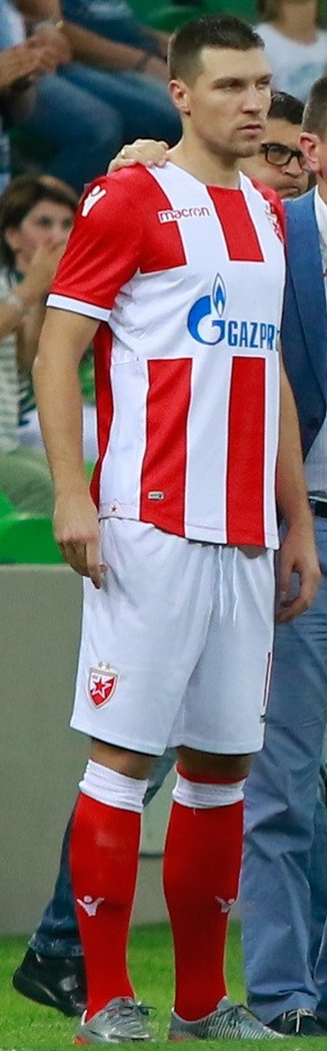 Nemanja Milić with FK Crvena Zvezda in an UEFA Europa League game against FC Krasnodar.